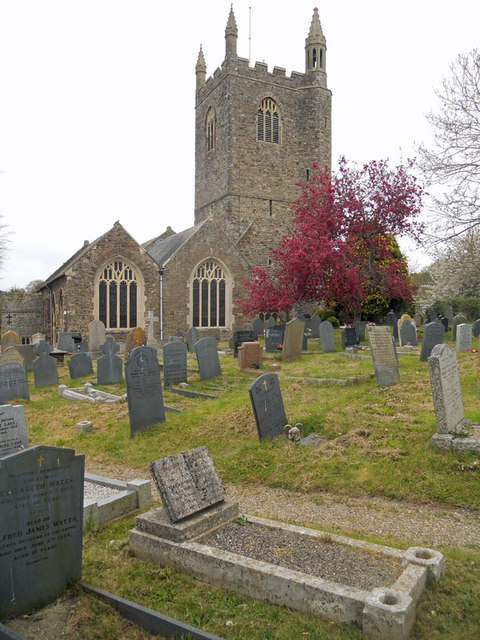 Parish church of St Mary the Virgin, Pilton, Devon, seen from the southeast